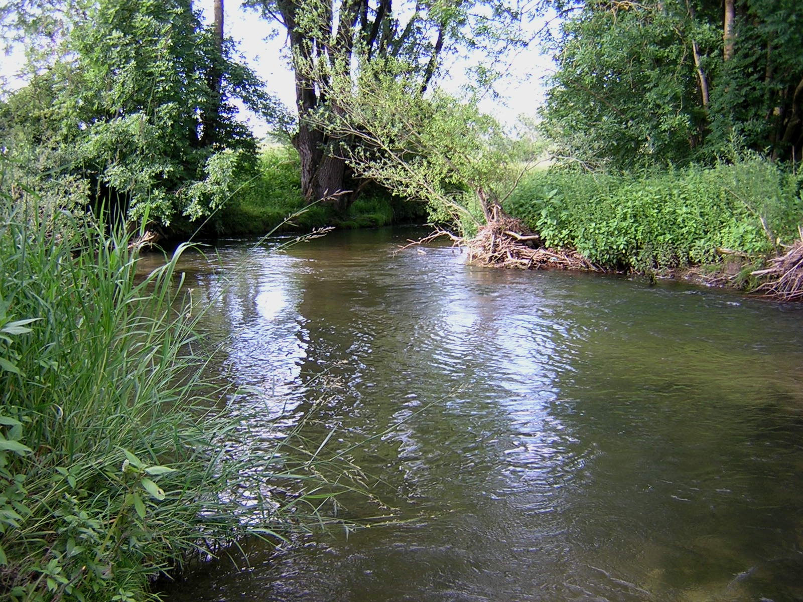 River Paar between the villages Kissing and Friedberg-Ottmaring, Germany 48°19'23.92" N 10°59'29.37" E